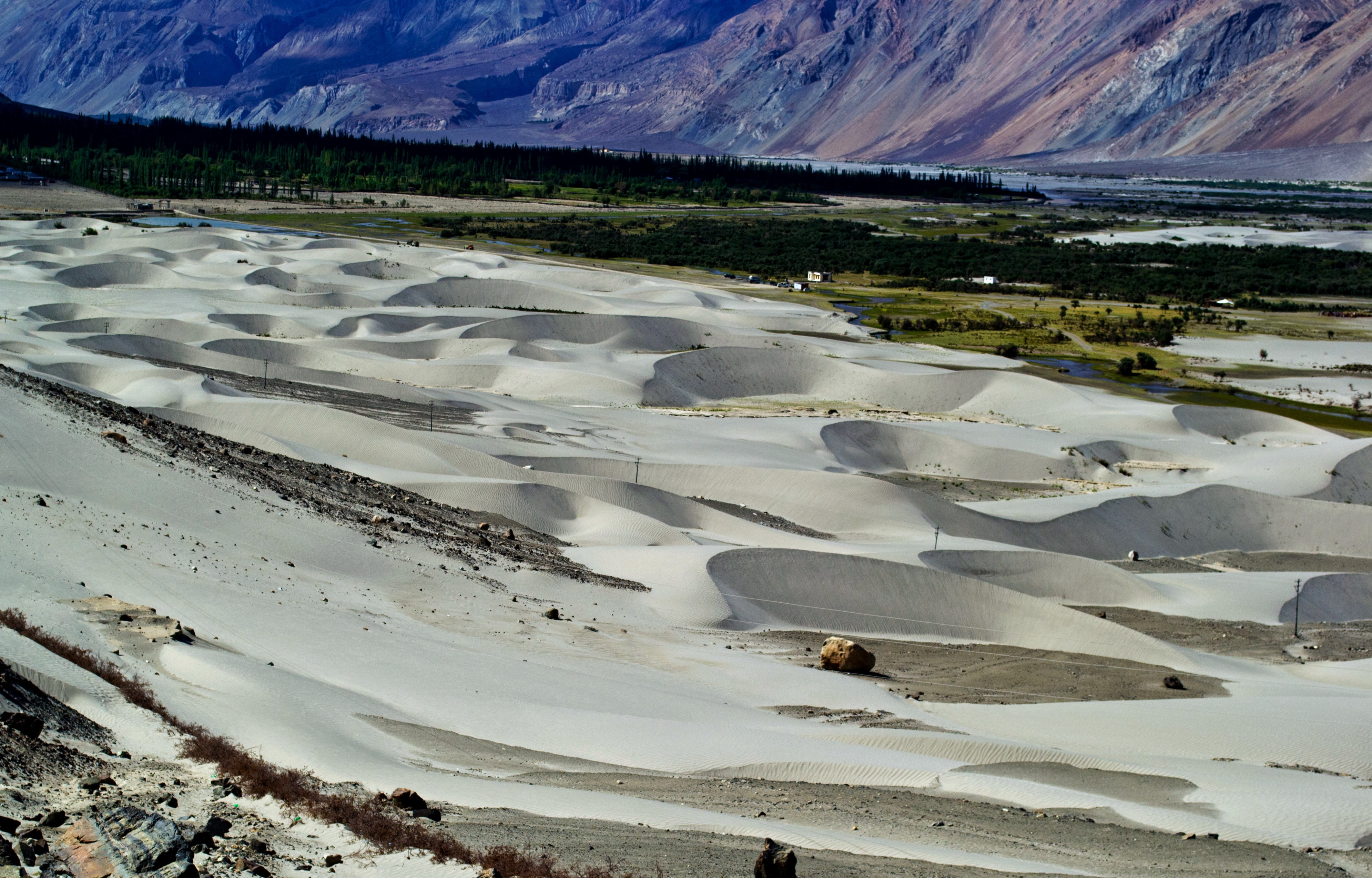 Silver sand desert of nubra valley, during august 2012